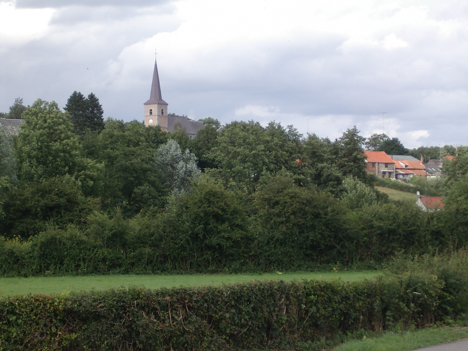 Village in Obrechies (Nord, France)